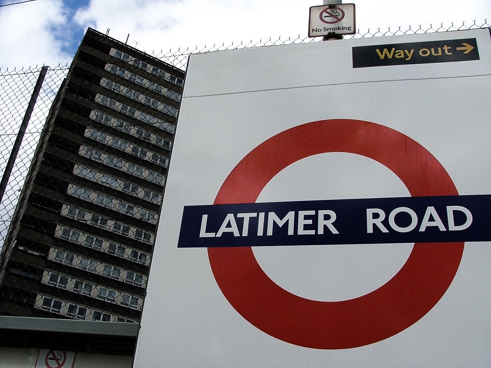 Latimer Road Station, London Underground.